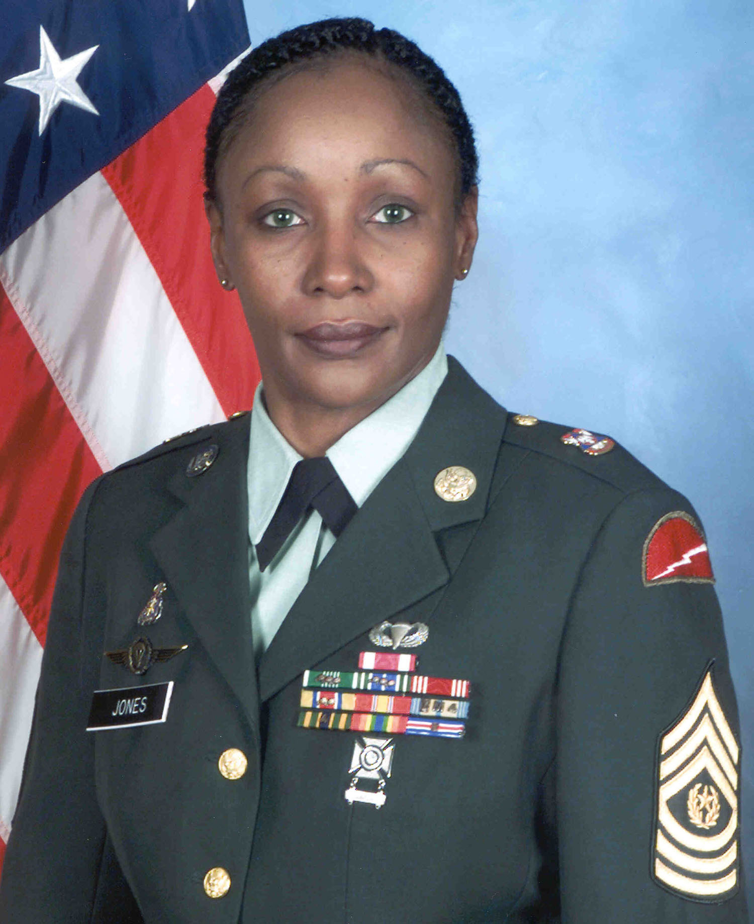 Official portrait of Command Sergeant Major(CSM) Michelle S. Jones, first female command sergeant major of the U.S. Army Reserve.